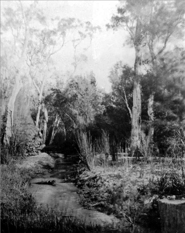 Claise Brook, 1861